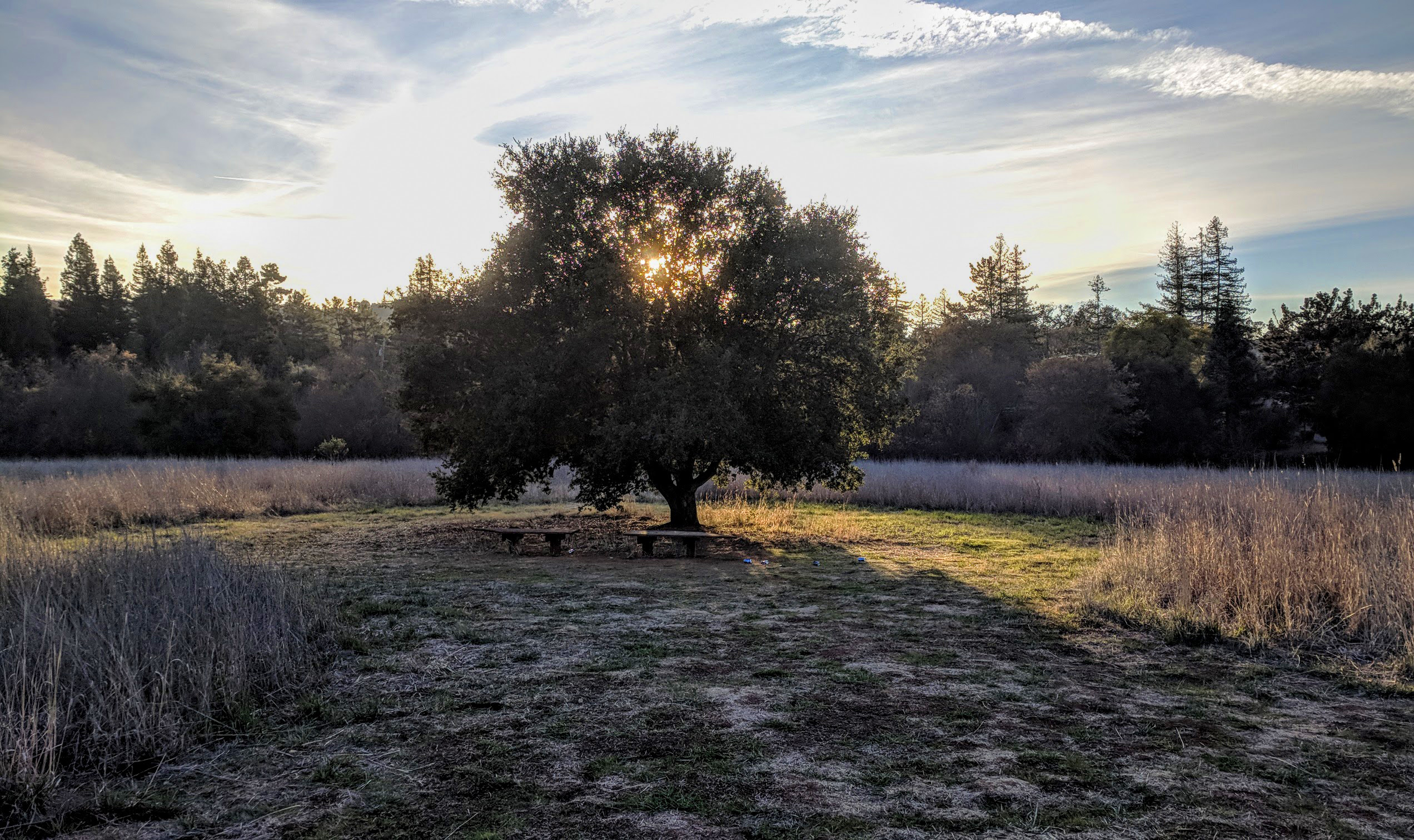 Oak tree at Esther Clark Park in Palo Alto, with beer cans strewn around it